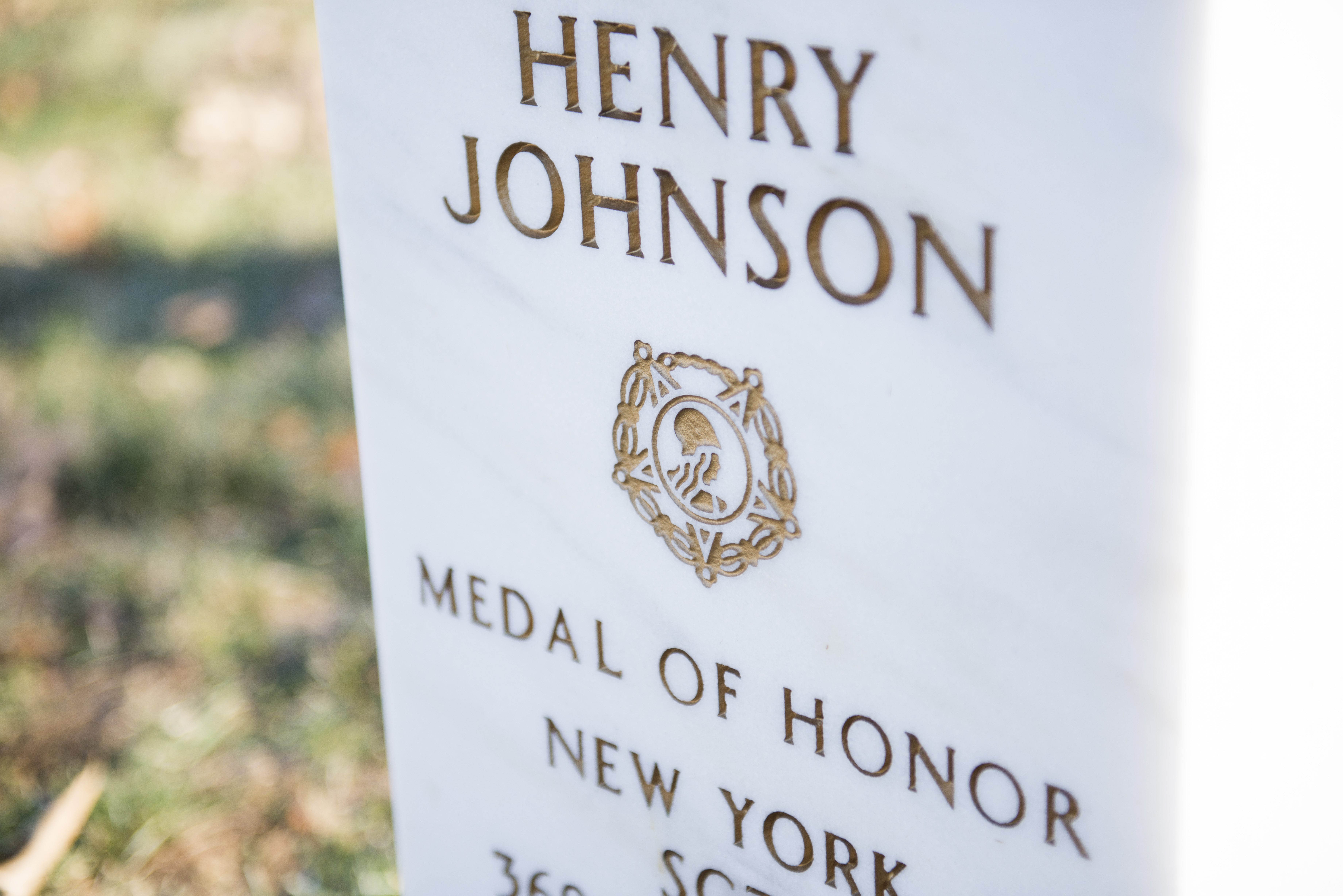 HJohnson01